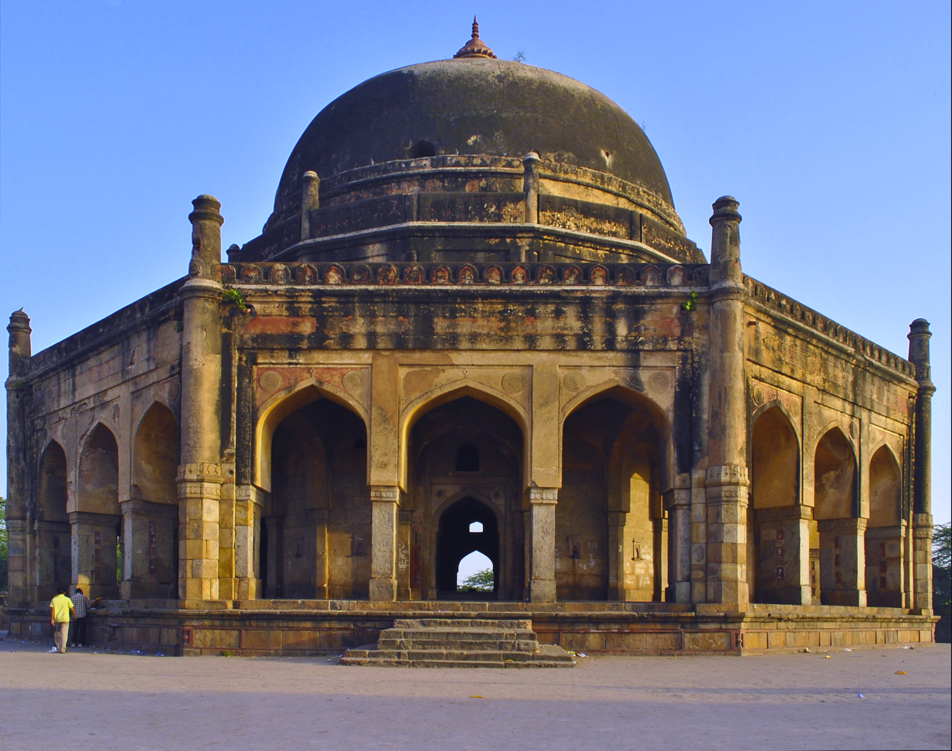 Located right in front of Mehrauli Bus Depot, the facade has been completely taken over by the encroachments all around. Son of AKbar's wet nurse Maham Aga, he was thrown from Agra Fort and killed under Akbar's orders after he fell out with and killed the king's prime minister. The tomb was used as a rest house and police station during the British era until Lord Curzon put an end to it.